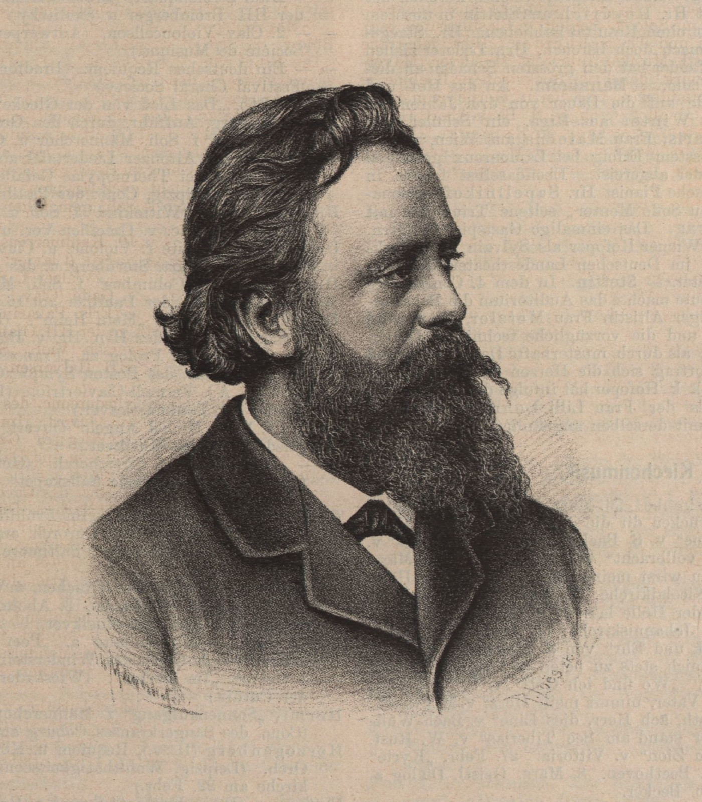 engraving from a journal of the year 1891. From a copy of the Journal copied and scanned by user Börger, 2010-05-27